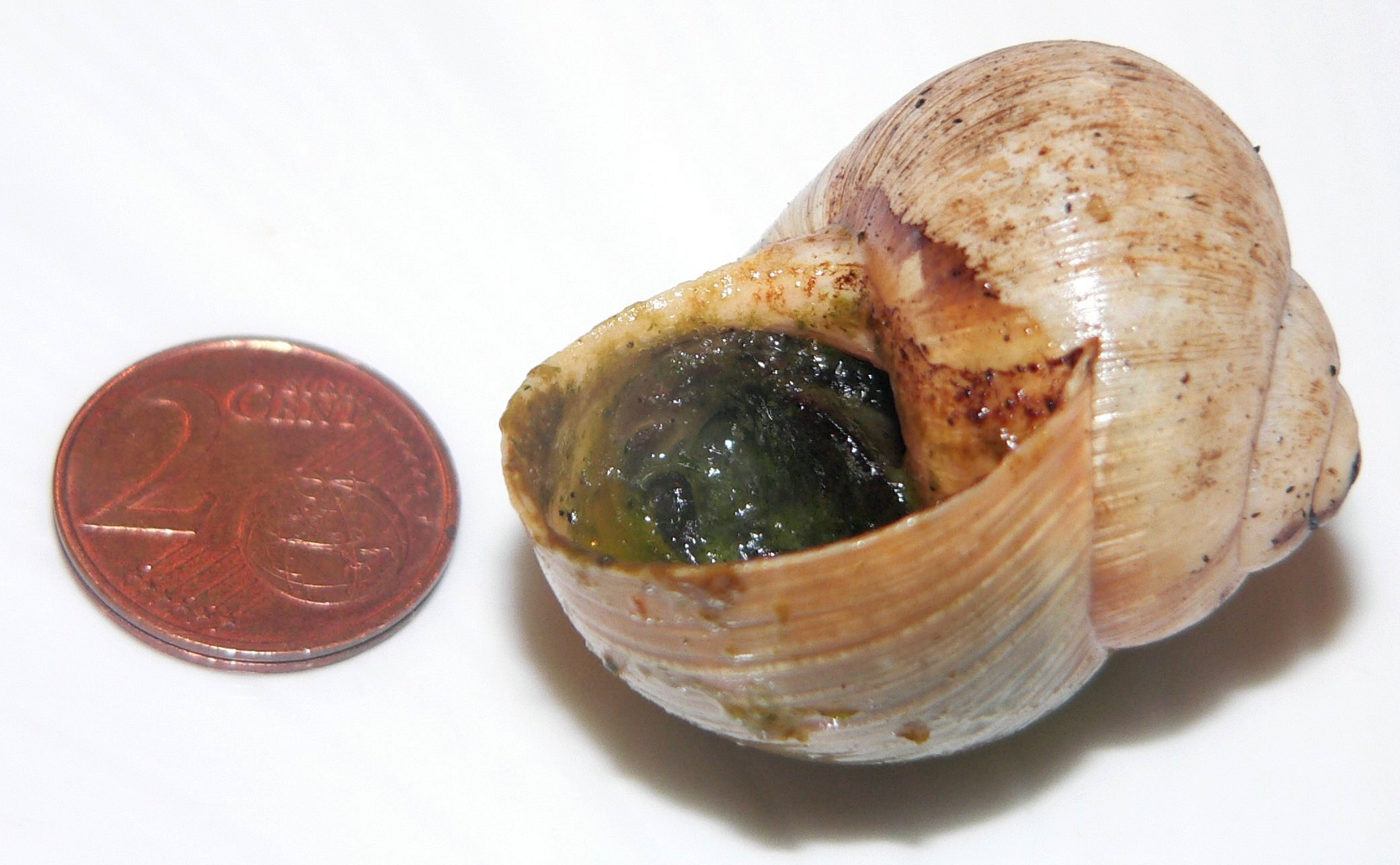 Escargot cooked with garlic butter and parsley in a shell (with a €0.02 coin, about 19 mm across, as a scale object).Helix pomatia, determined 04 June 2011 by Francisco Welter-Schultes Escargot with a 0.02€ coin as scale